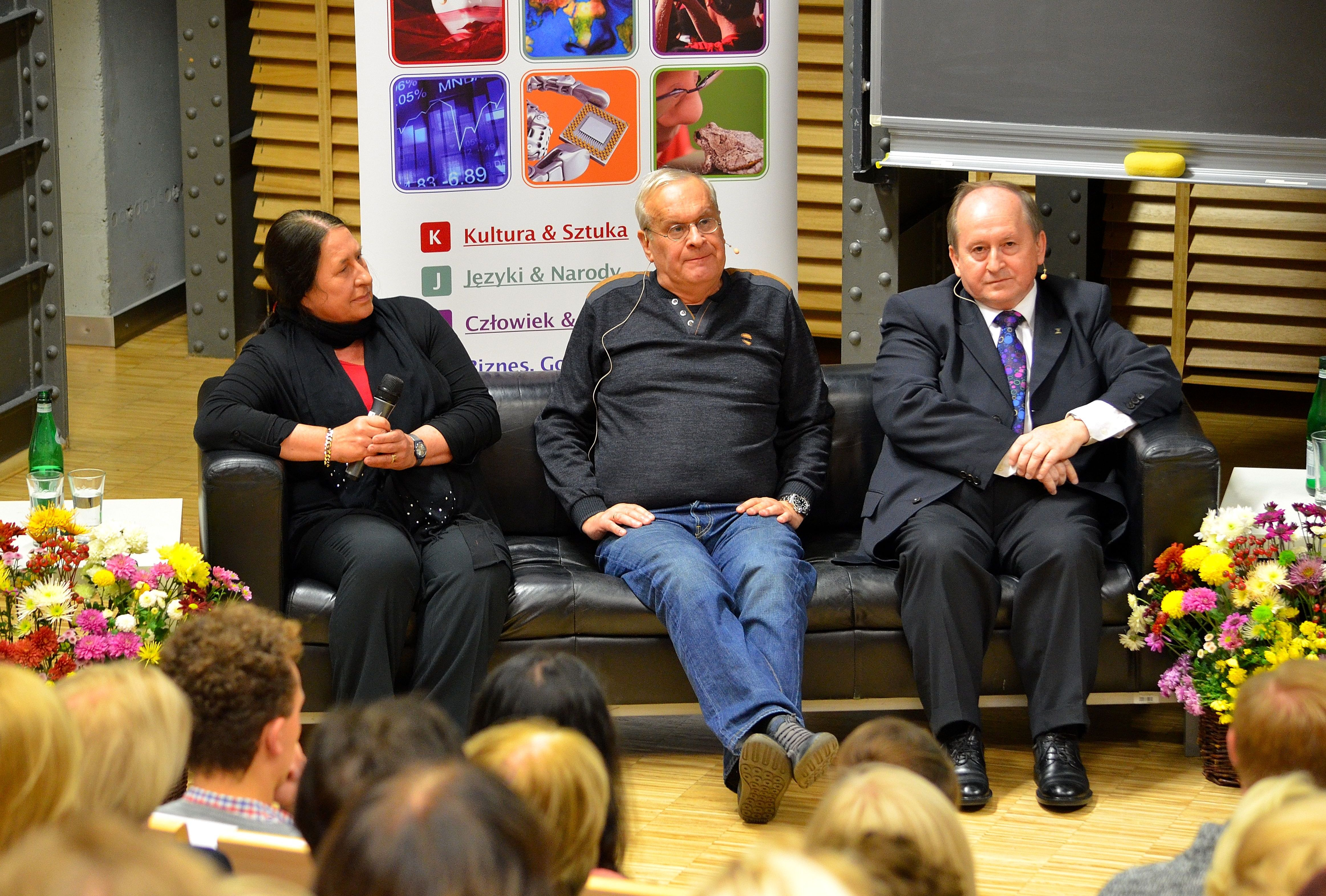 Professor Ewa Czerniawska, Janusz Weiss and Krzysztof Pietraszkiewicz during the debate "Leonardo da Vinci in a corporation i.e. how to become a Renaissance man nowadays?" organized by the Open University of the Warsaw University